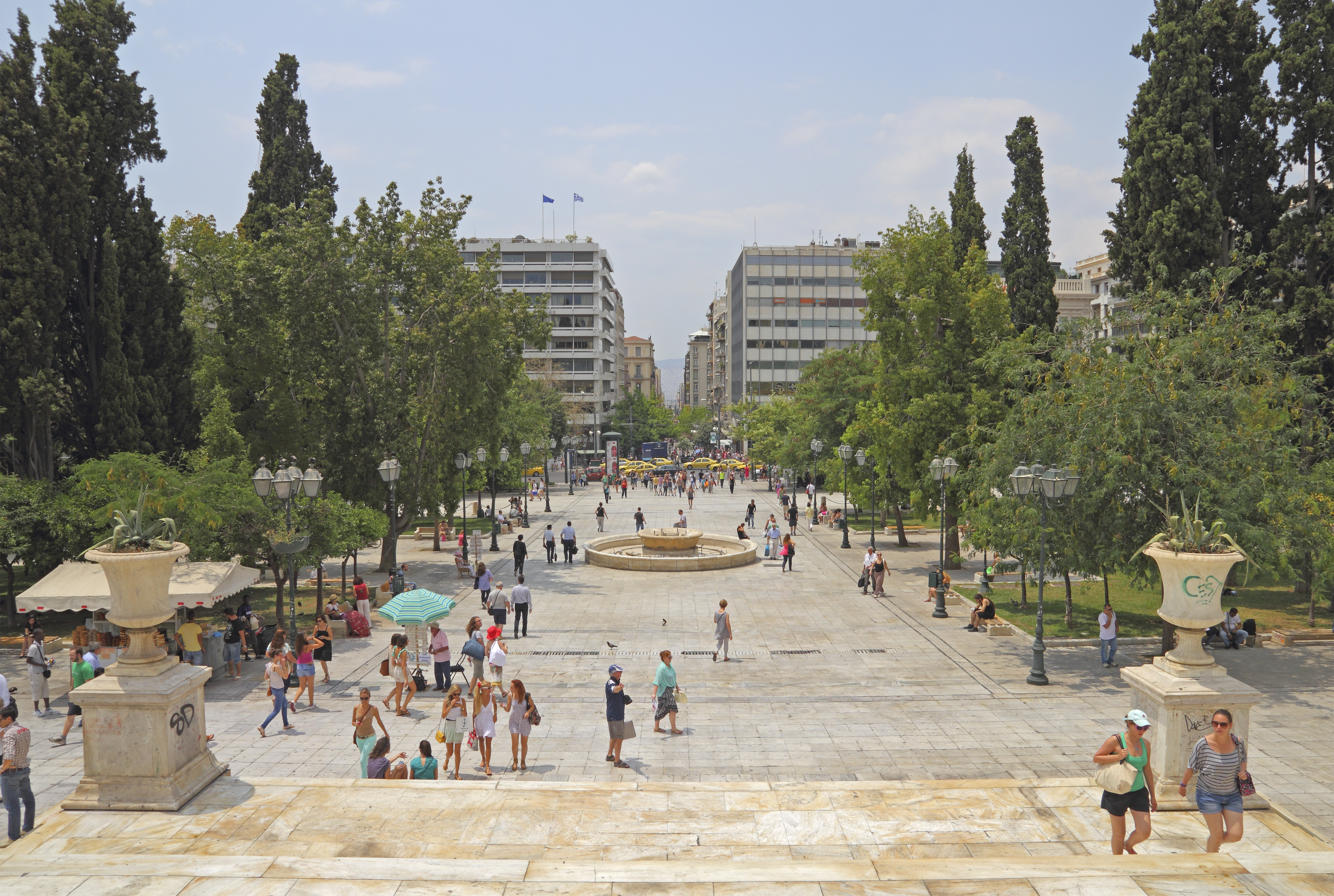 Syntagma (Constitution Square) in Athens (Attica, Greece)